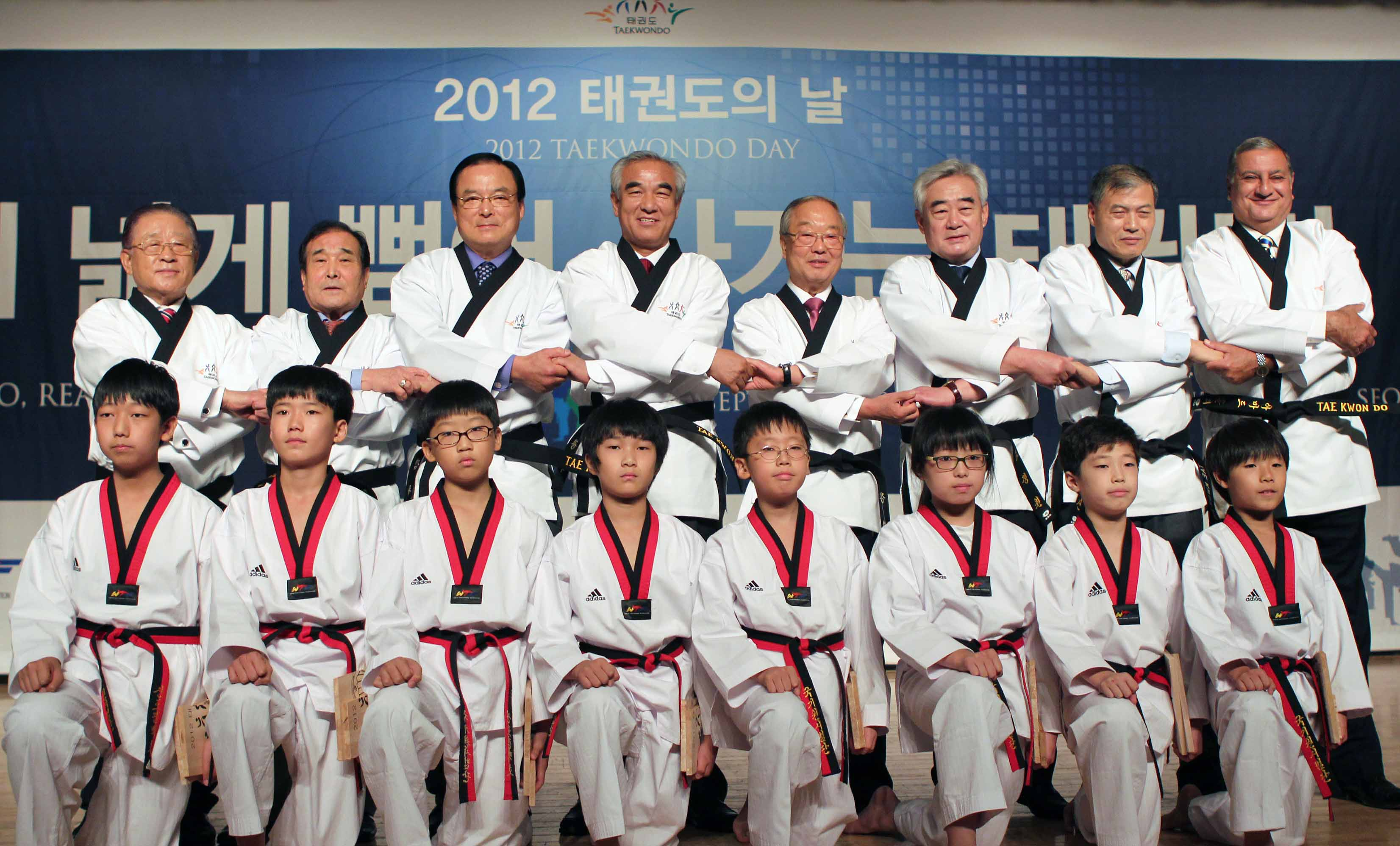 Taekwondo Day Celebration of 2012 Taekwondo Day Minister Choe Kwang-shik has photo time with other Taekwondo VIP and Kukkiwon Taekwondo Demonstration Team Grand Hilton Hotel 2012.09.04. Ministry of Culture, Sports and Tourism Korean Culture and Information Service Jeon Han 2012 태권도의 날 기념식 문화체육관광부 최광식 장관(왼쪽에서 4번째), 강원식 국기원 원장(왼쪽에서 5번째) 및 주요 VIP 국기원 어린이 시범단과 기념촬영 그랜드힐튼호텔 컨벤션홀 문화체육관광부 해외문화홍보원 전한